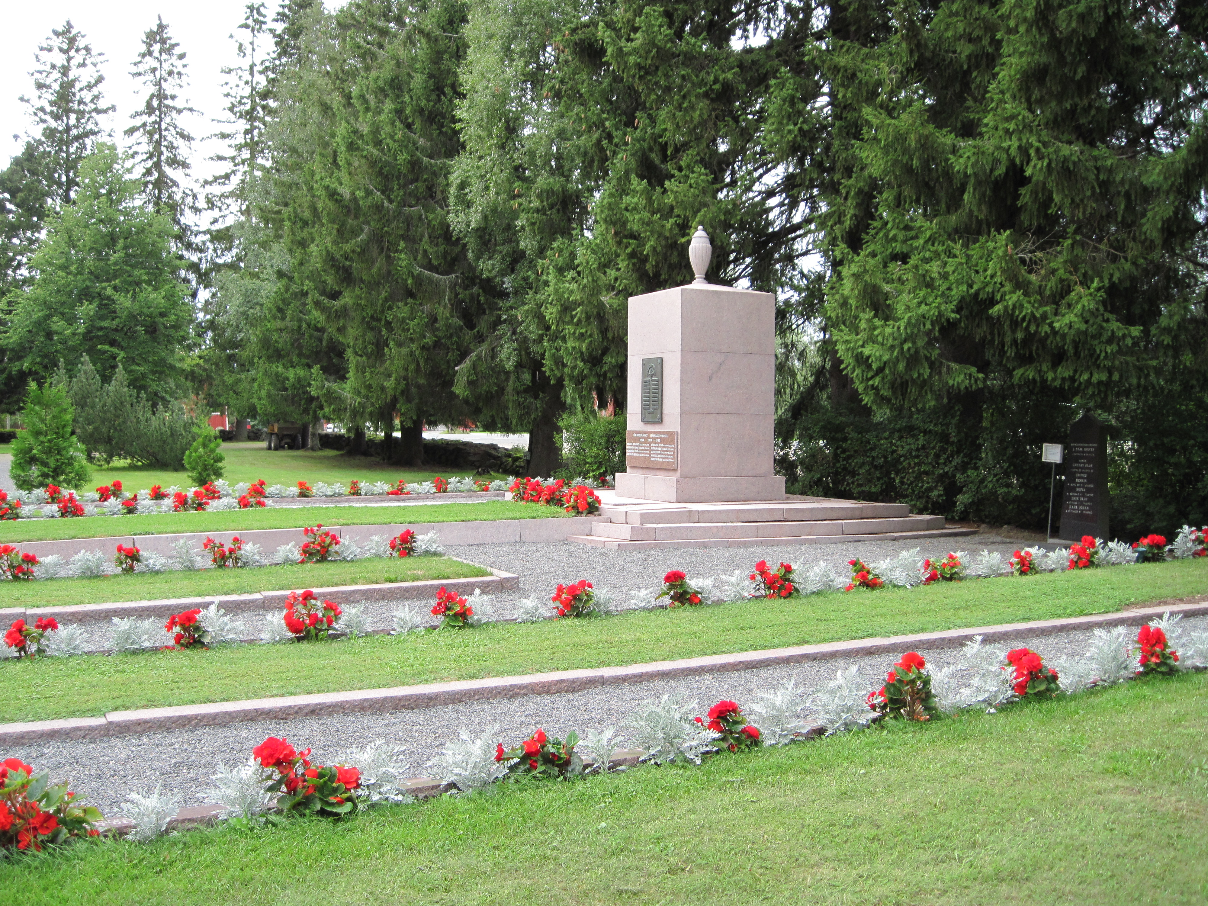 Military cemetary at Lappfjärd church in Lappfjärd, Kristinestad, Finland